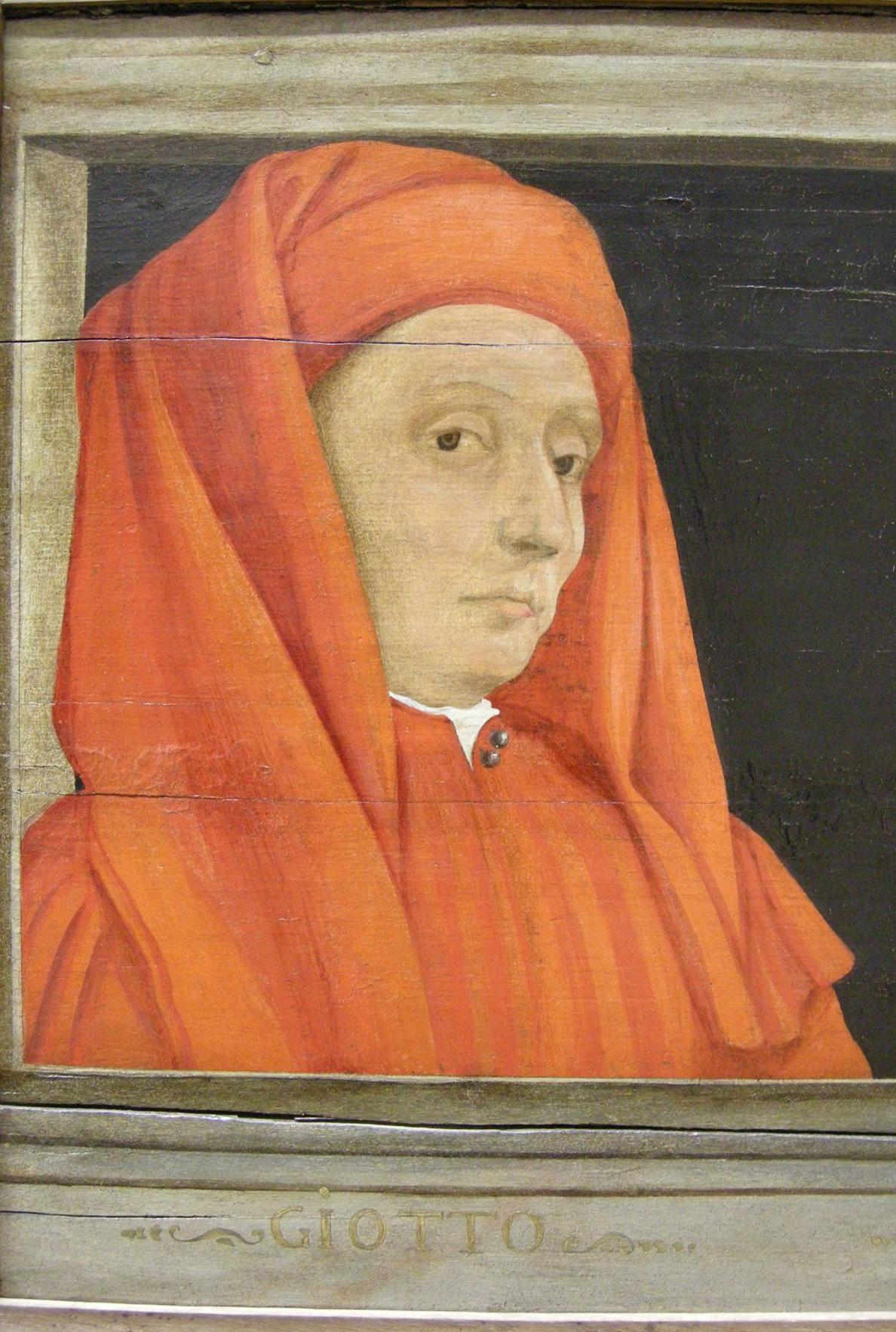 portraits of Giotto, Paolo Uccello, Donatello, Antonio Manetti and Filippo Brunelleschi